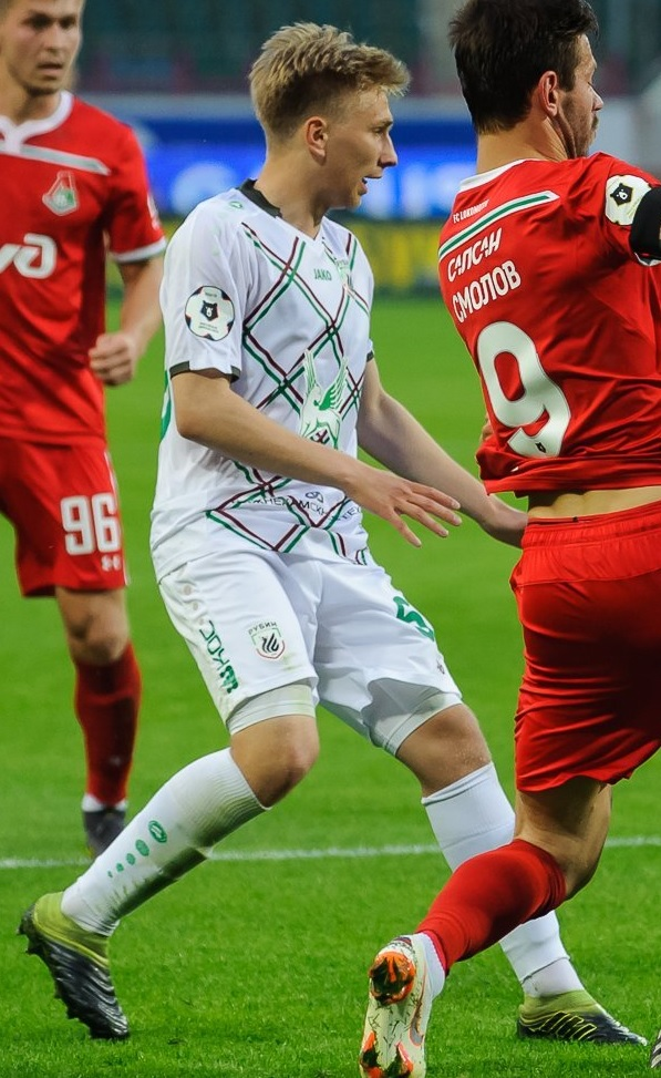 Danil Stepanov with FC Rubin Kazan in a game against FC Lokomotiv Moscow.